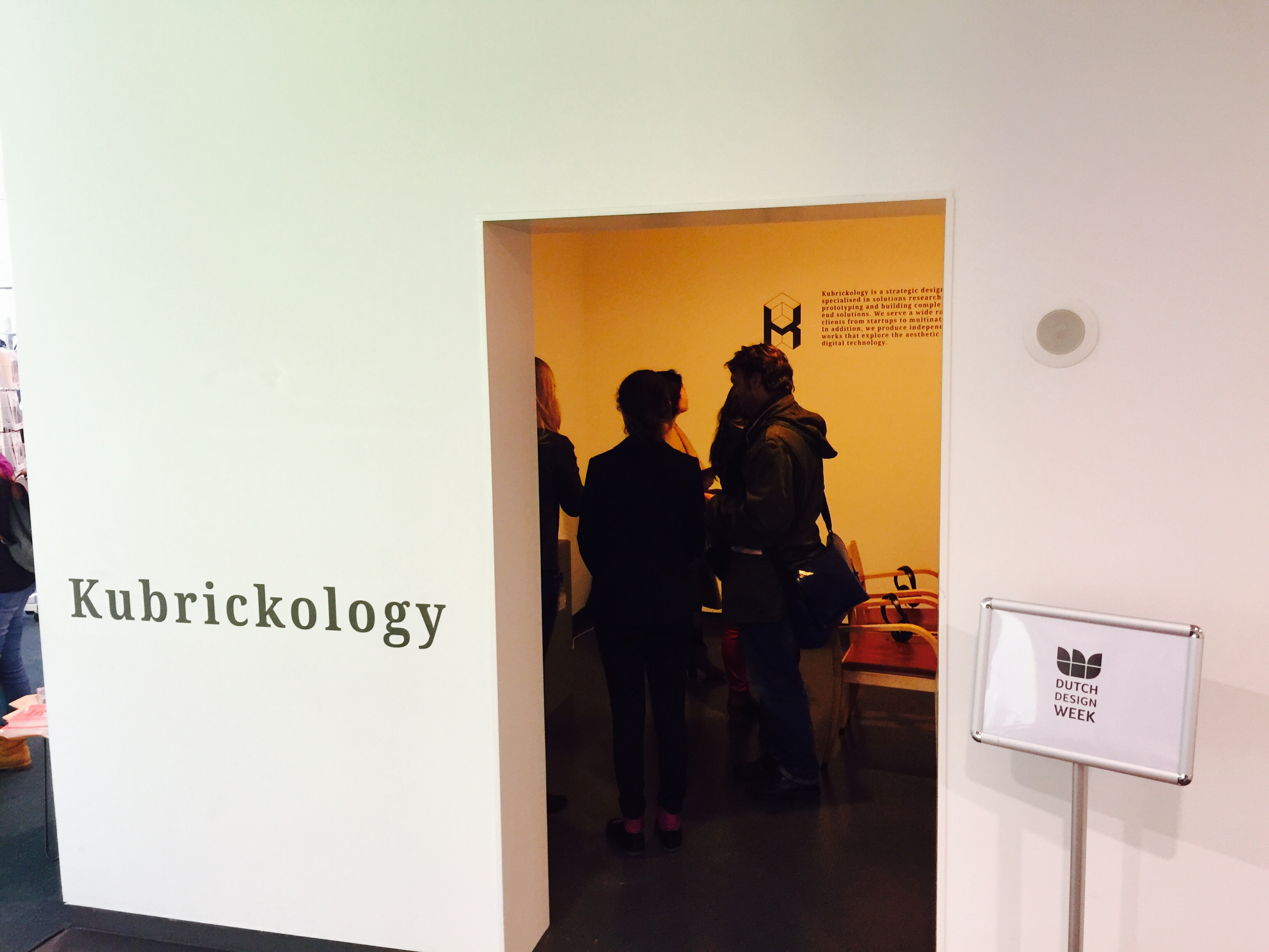 Kubrickology at the Dutch Design Week in the Van Abbe Museum